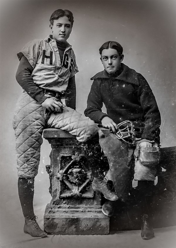 photograph of Charles Ives as star baseball pitcher for Hopkins School